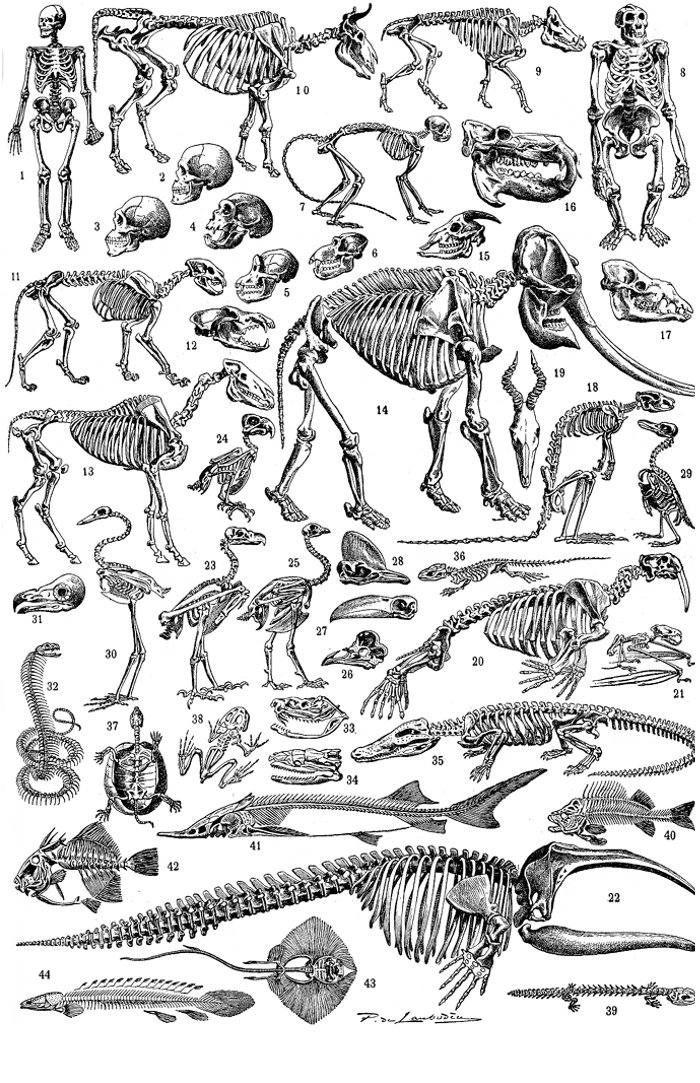 Numbered Skeletons